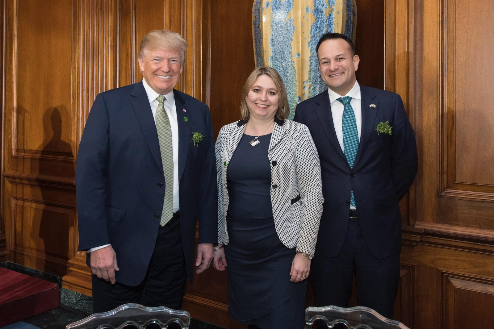 Visiting the USA as part of the Washington St Patrick's Day celebrations, Secretary of State for Northern Ireland Karen Bradley MP was honoured to meet President Trump alongside the Taoiseach Leo Varadkar on 15 March 2018.